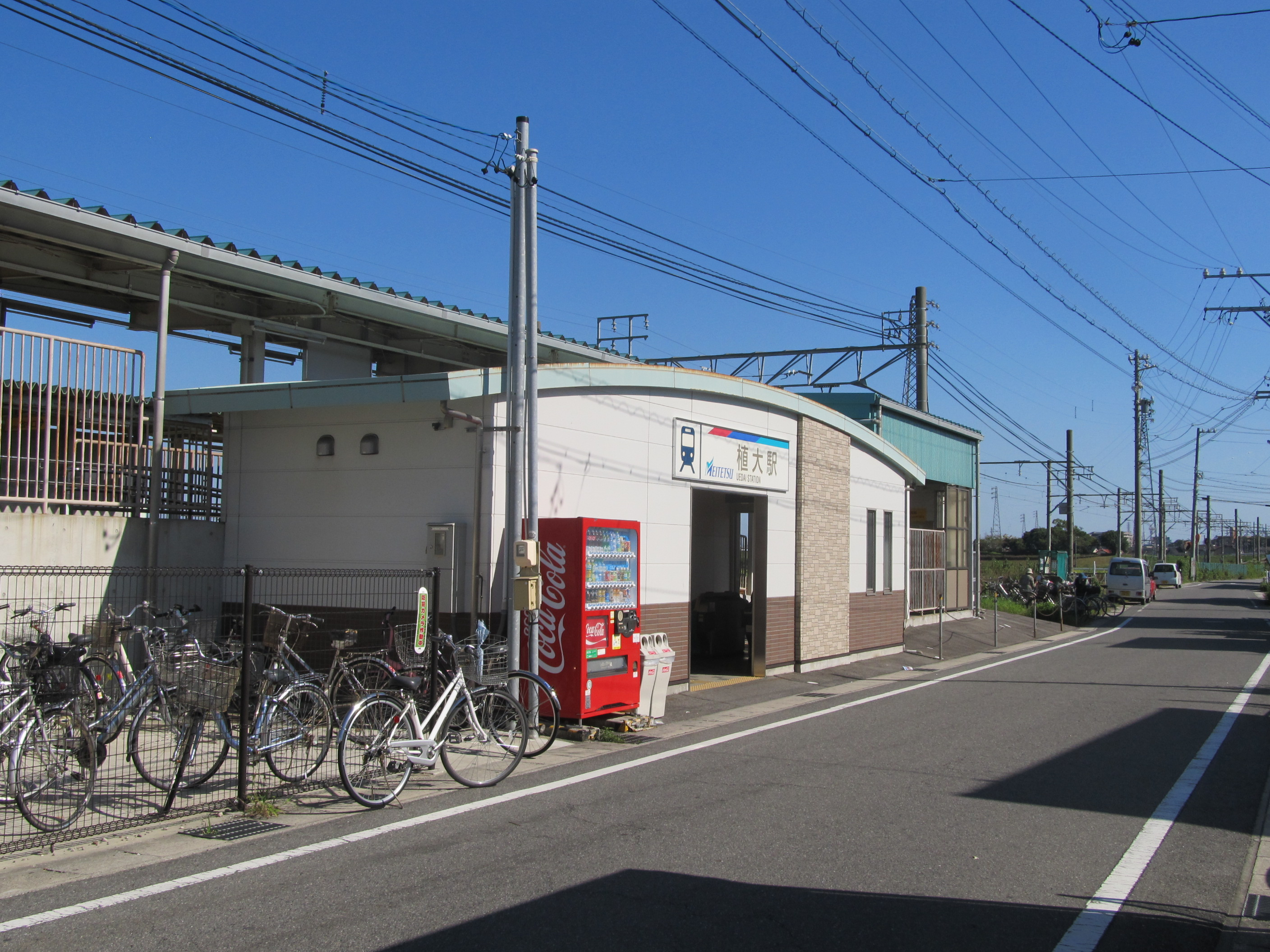 Nagoya Railroad Kowa Line Uedai Station Building